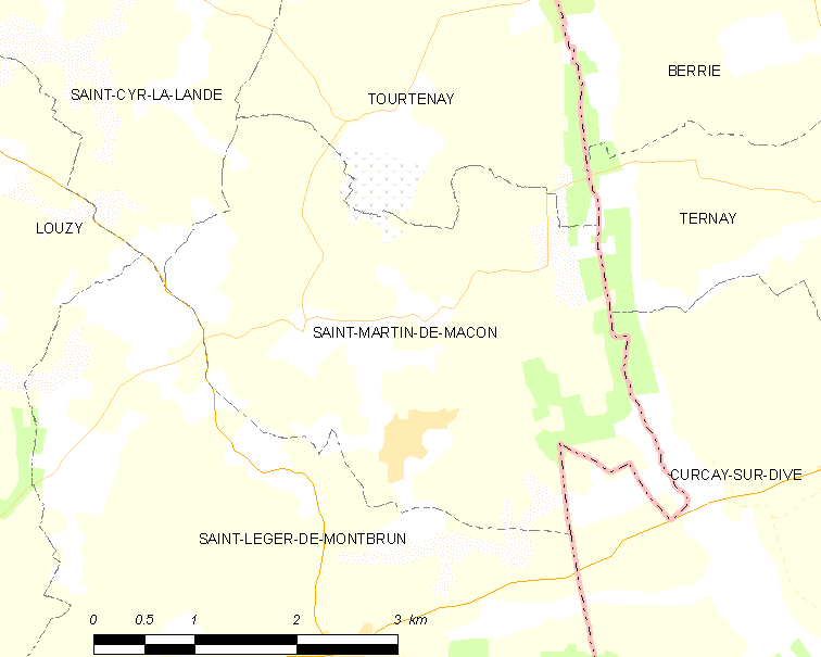 Map of French municipality Saint-Martin-de-Mâcon